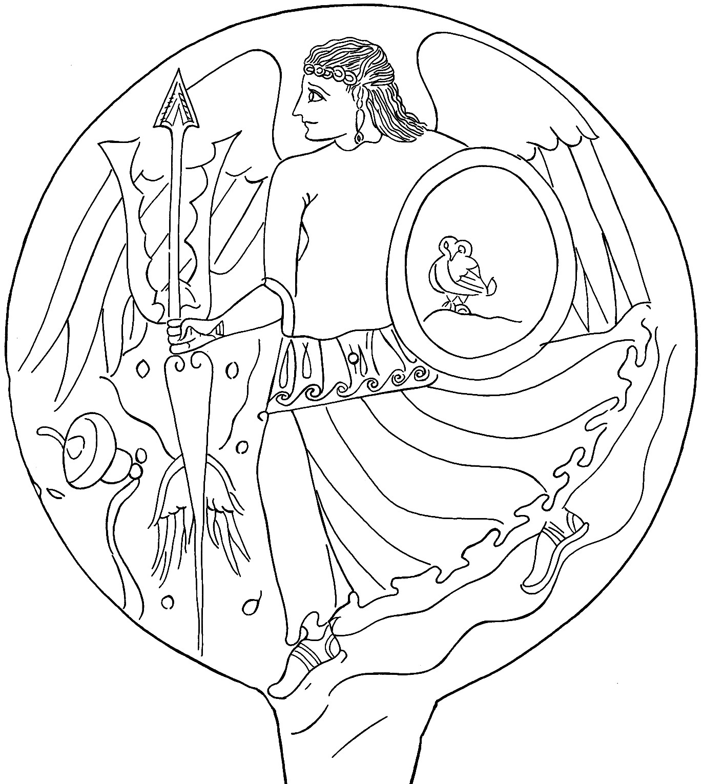 Bronze Mirror (Berlin, Staatliche Museen, Antikensammlung)A winged Menrva flies to the left, carrying a thunderbolt as a weapon.